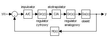 Digital control system schema